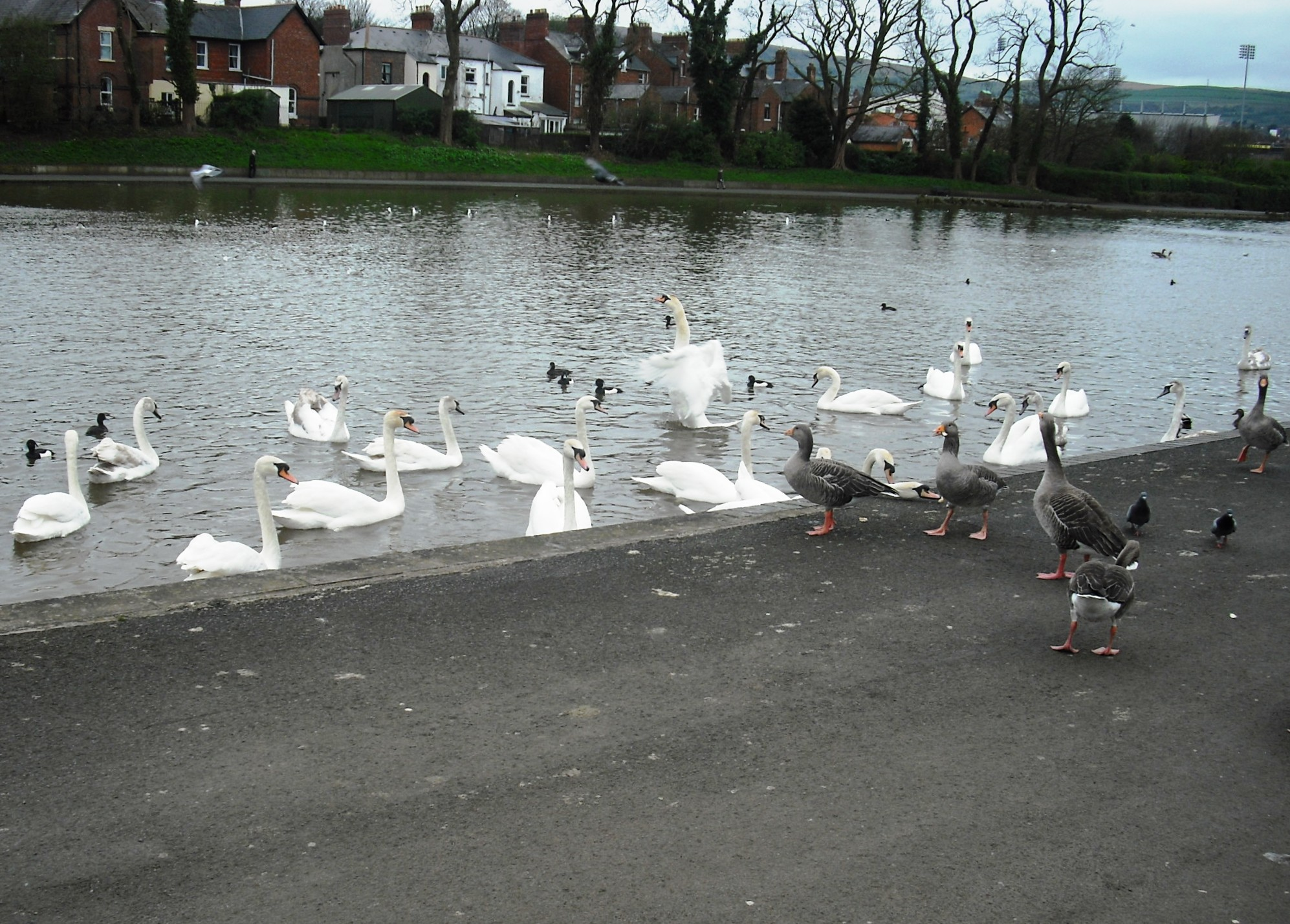 Geese and swams swarming around a man-made lake in the Waterworks public park in Belfast